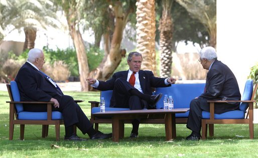 President George W. Bush of United States (center) discusses the Middle East peace process with Prime Minister Ariel Sharon of Israel (left) and Palestinian Prime Minister Mahmoud Abbas in Aqaba, Jordan, Wednesday, June 4, 2003. source